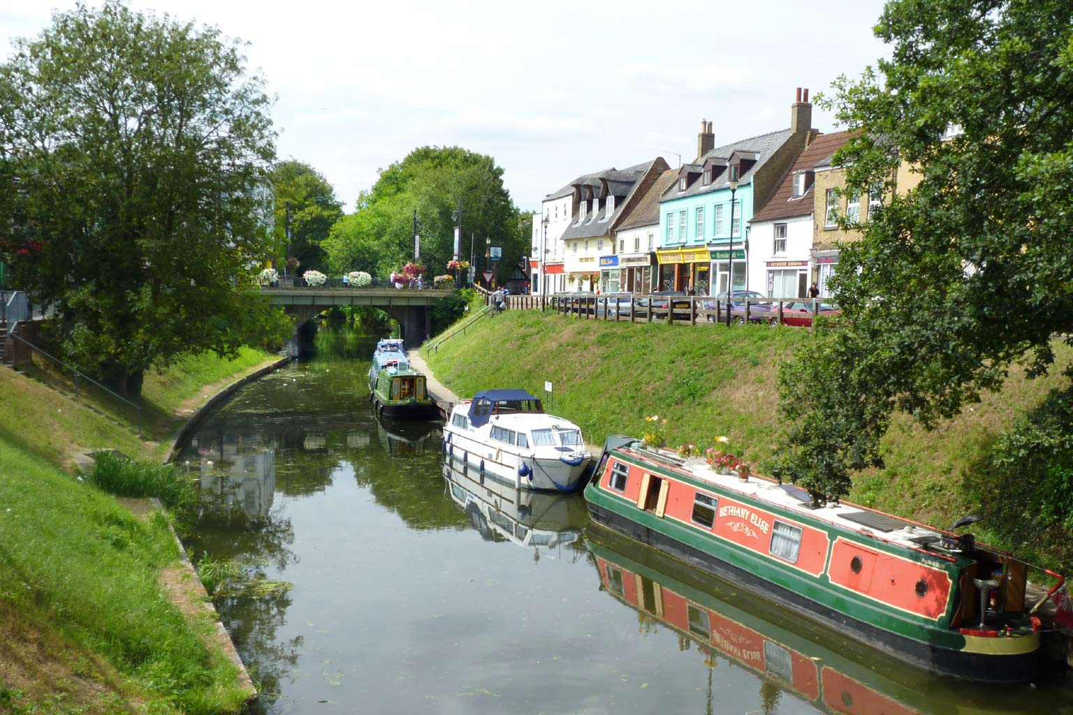 March, Cambridgeshire High Street bridge and drainage and transportation canal.